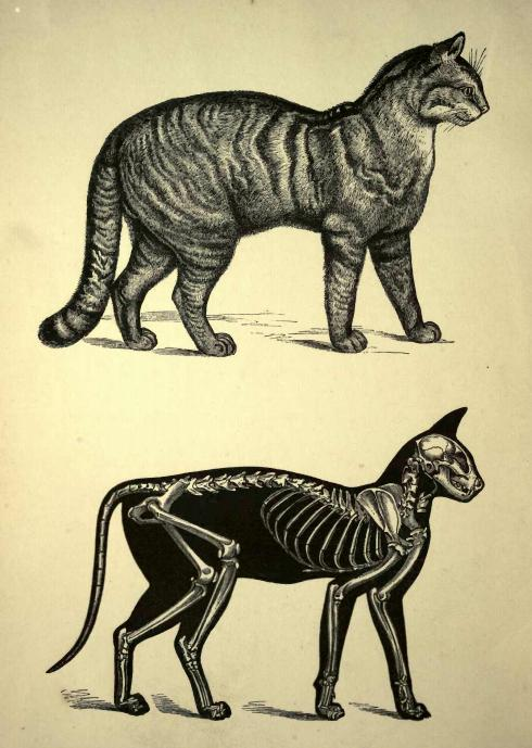 "Relative proportion of skeleton to the exterior of the cat"